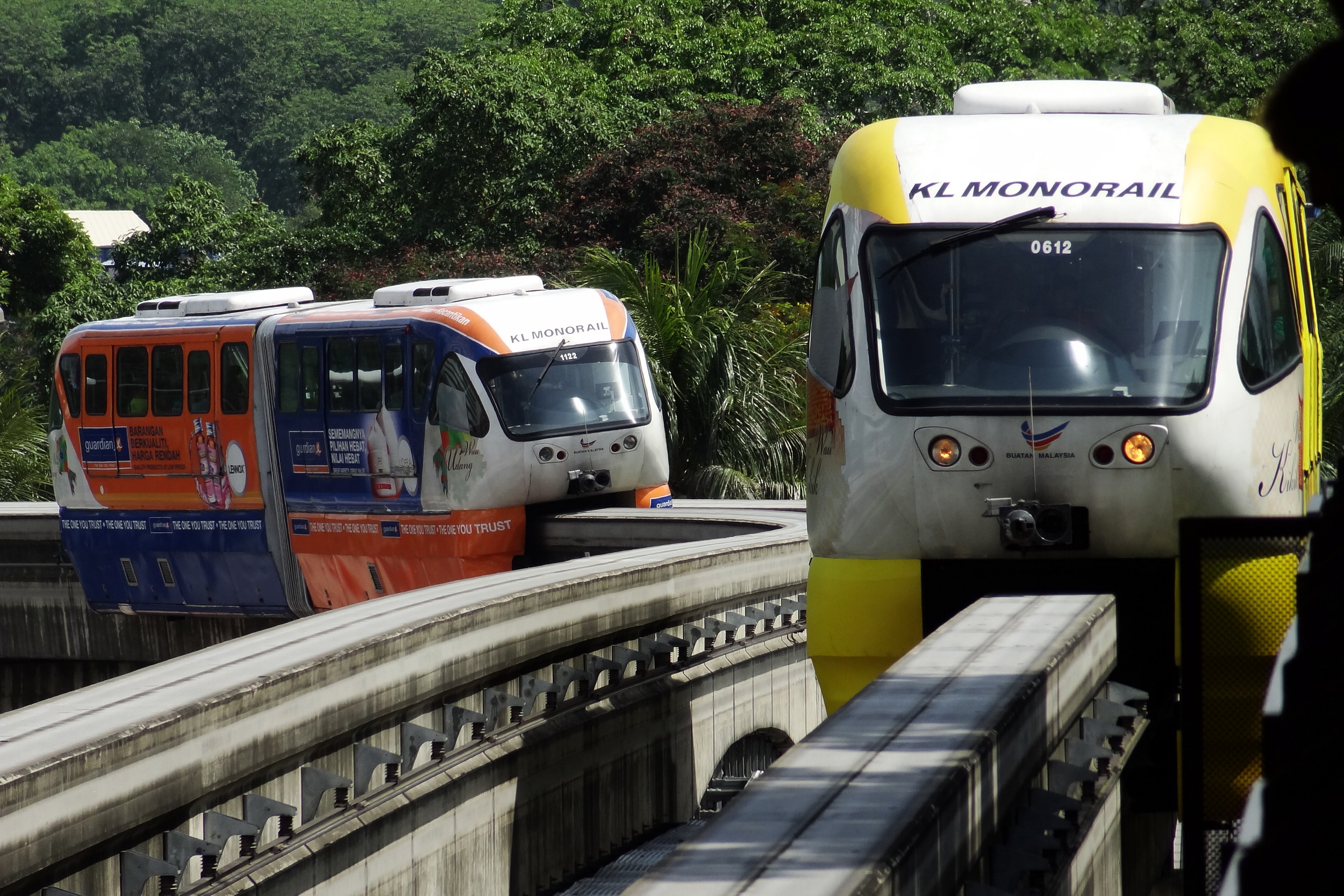 Two trains of Kuala Lumpur Monorail